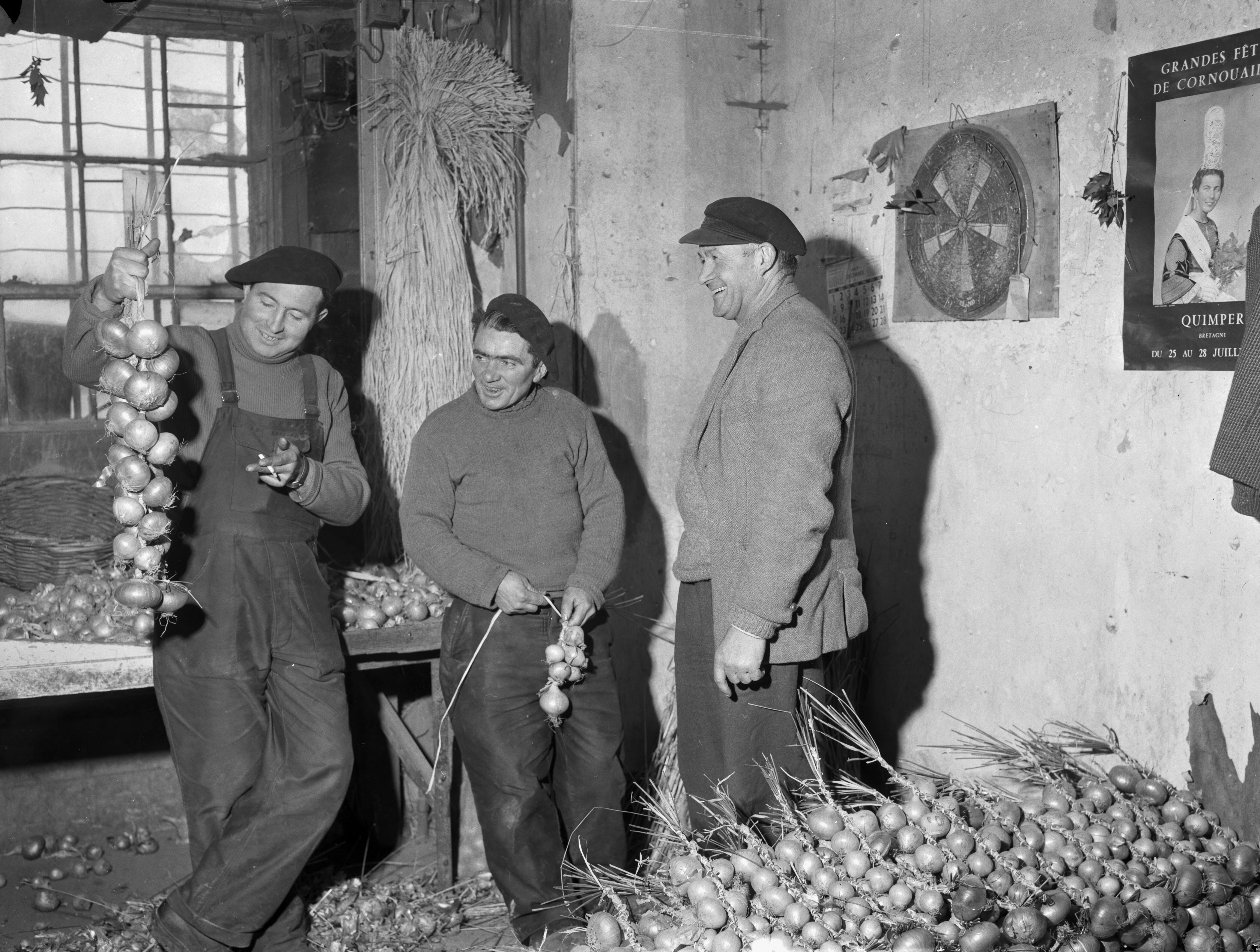 Teitl Cymraeg/Welsh title: Hanes Sioni Winiwns Nodyn/Note: Men packing onions on to strings in Porthmadog, including the onion sellers Jean Guivarch and Claudet Daridon. Cyfrwng/Medium: Negydd ffilm / Film negative Cyfeiriad/Reference: (gch11503) Rhif cofnod / Record no.: 3369662 Rhagor o wybodaeth am gasgliad Geoff Charles yn Llyfrgell Genedlaethol Cymru More information about the Geoff Charles Collection at the National Library of Wales Mae ffotograffau Geoff Charles hefyd yn rhan o Broject Europeana Libraries Geoff Charles' photographs also form part of the Europeana Libraries Project